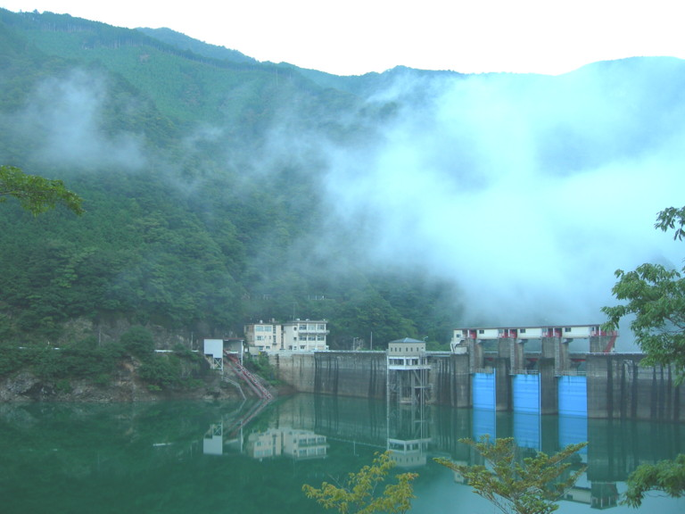 Miyagawa-dam at Odai town Taki District Mie Pref. Japan.